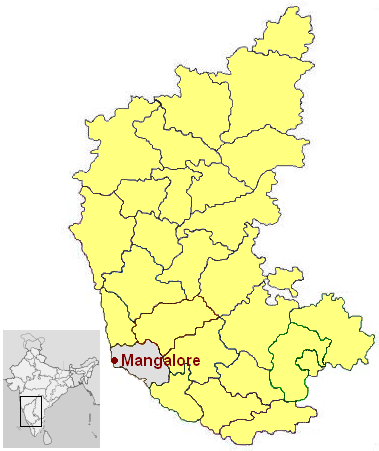 Location of Mangalore and Dakshina Kannada district within Karnataka state (India) own image